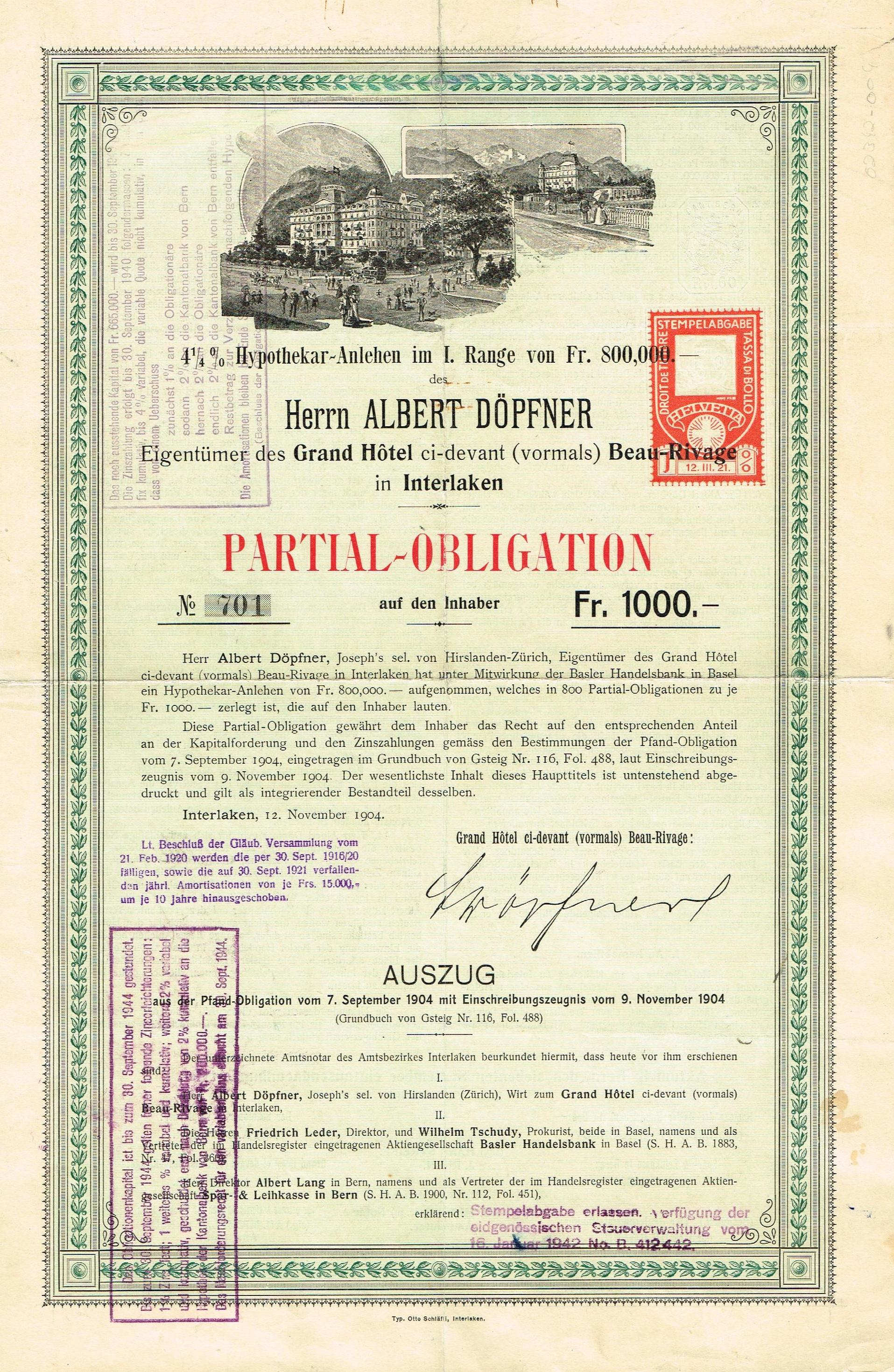 Bond of the Grand Hôtel ci-devant Beau-Rivate in Interlaken, issued 12. November 1904; the hotel was constructed by Horace Edouard Davinet